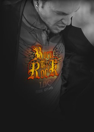 Vukasin Brajic